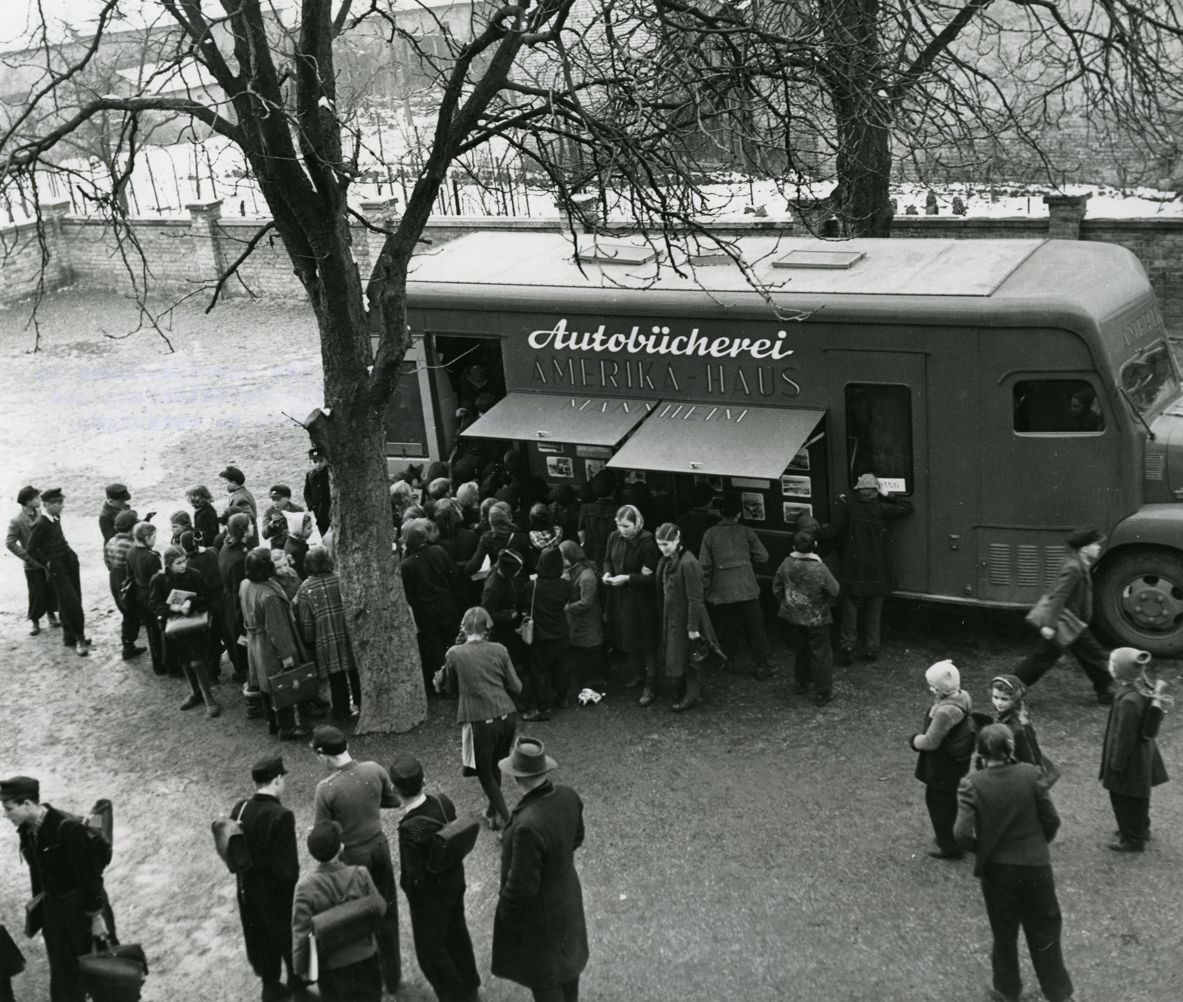 Residents Visit the Bookmobile in Mannheim, Germany. The first bookmobile of Amerika Haus began in 1952 to provide the population with books.